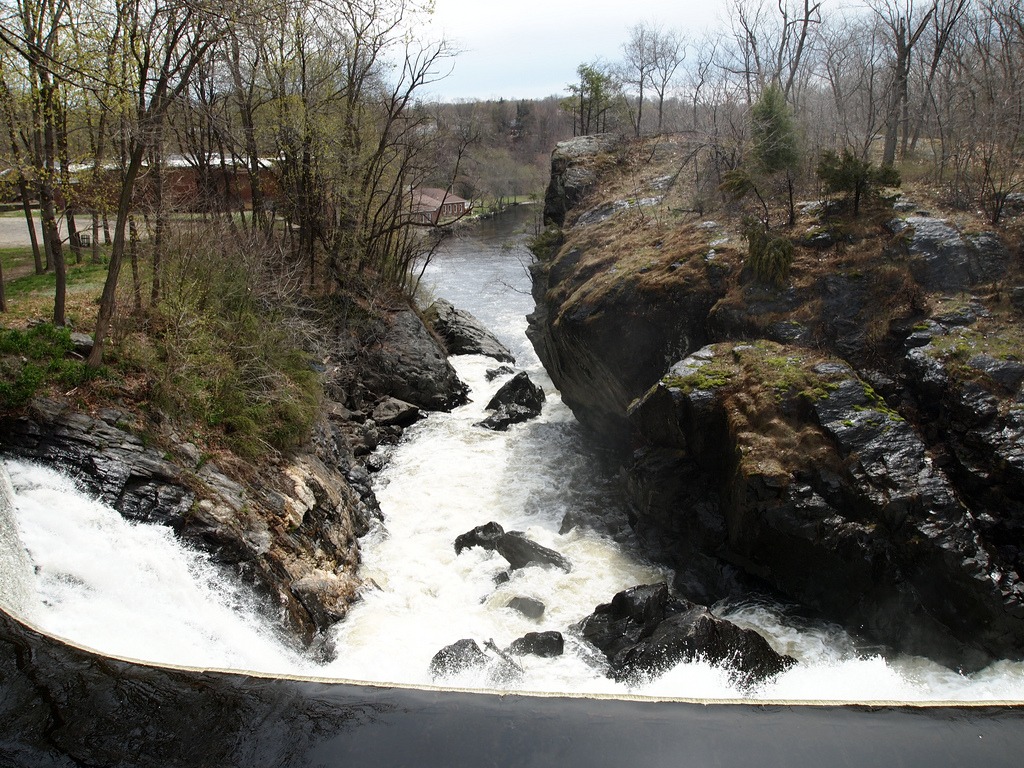 Connecticut - New London County - Norwich National Register of Historic Places #72001344 NRIS 2011 Apr 22 From the pedestrian bridge over the falls; view SE edit: none (Mill buildings on left)